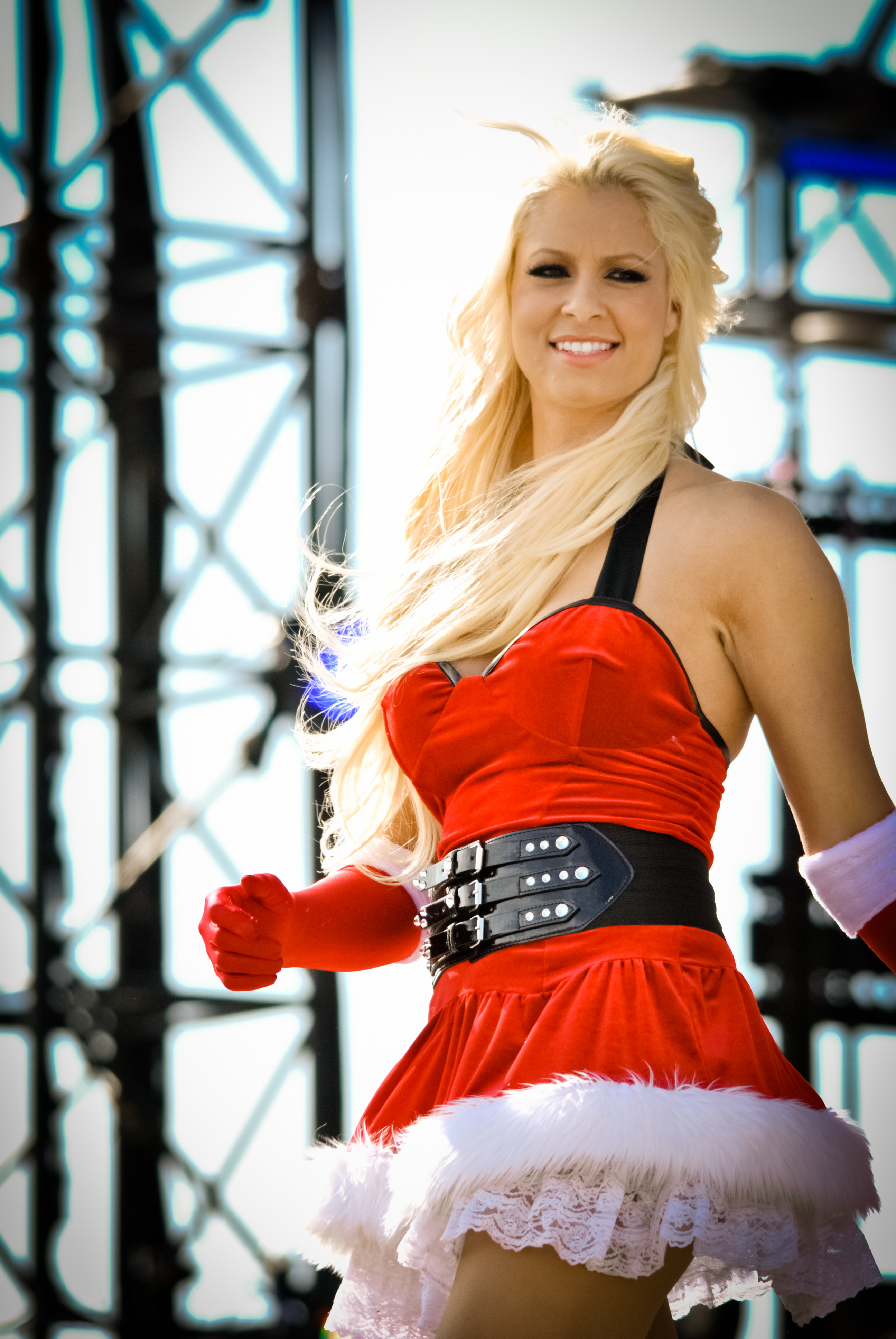 Maryse Ouellet at the 2010 Tribute to the Troops show in Fort Hood, Texas on December 11, 2010.